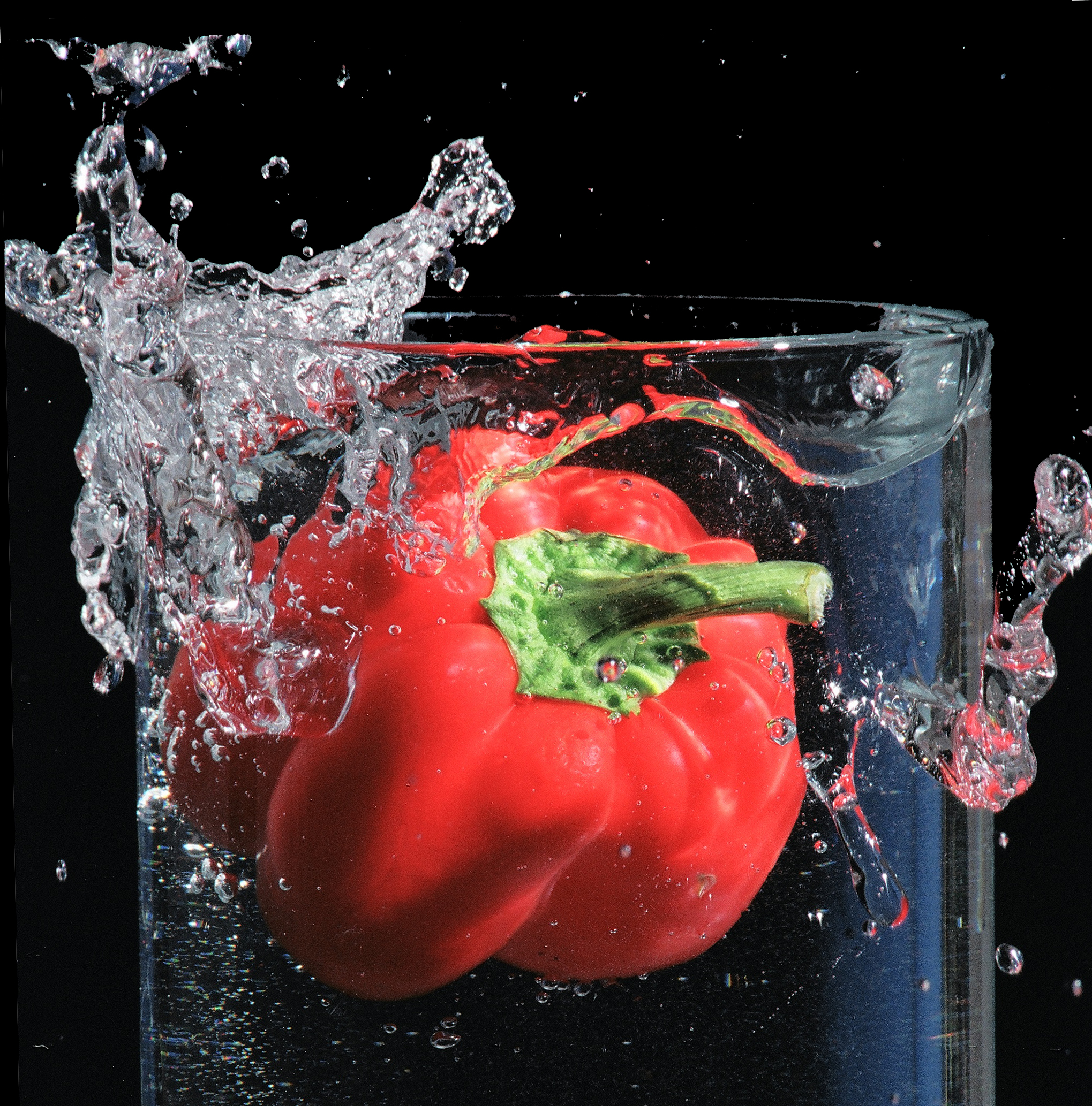 Pepper fall into water.